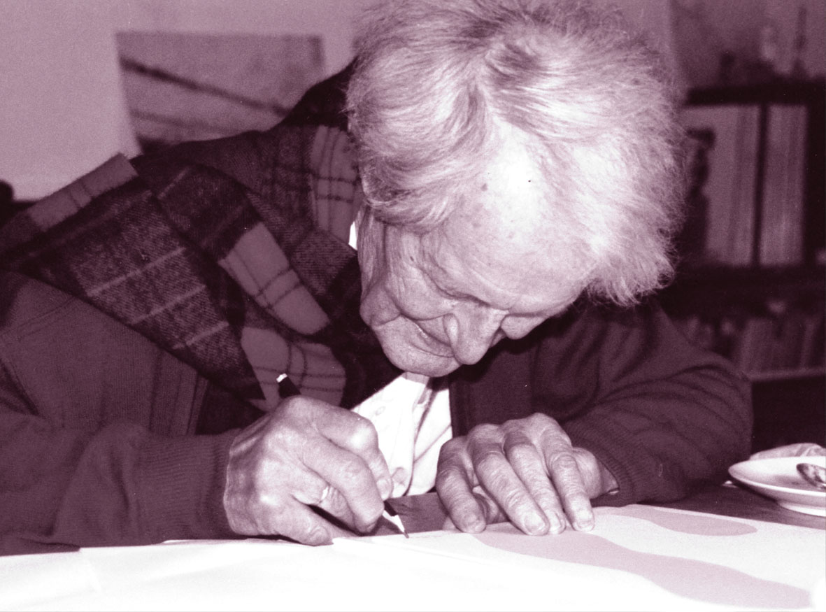 Portrait photo: Fritz Harnest in December 1998